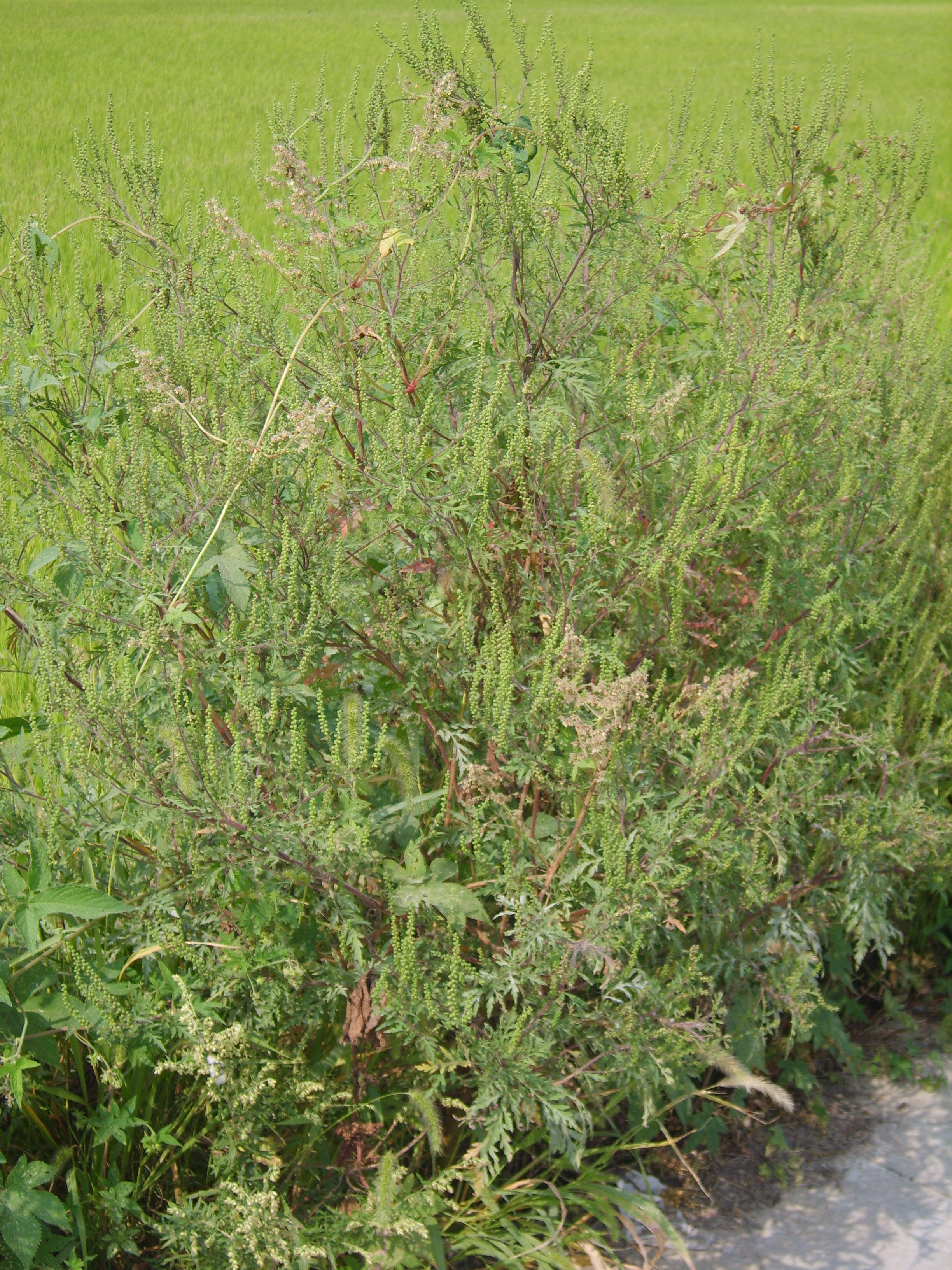 Ambrosia artemisiifolia in Gimpo, Korea